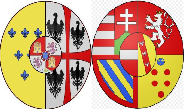 Arms of Maria Amalia of Austria (1746-1804), Duchess of Parma